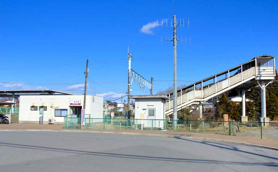 Myōjin Station of the Tōbu Nikko Line, Nikkō, Tochigi, Japan